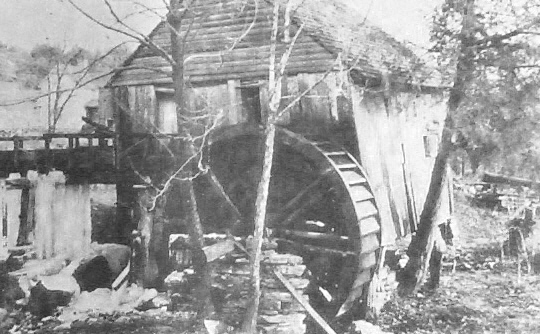 Francis Stooksbury's mill in Loyston, Tennessee, USA, photographed before Loyston was inundated by Norris Lake in the mid-1930s.